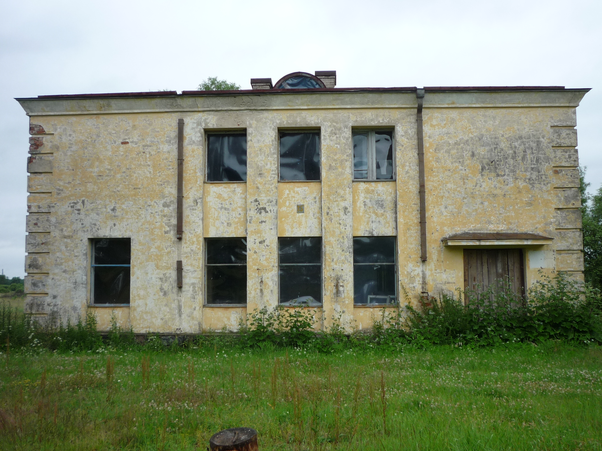 Rumba railway station building. Rumba village, Lihula parish, Lääne county, Estonia.